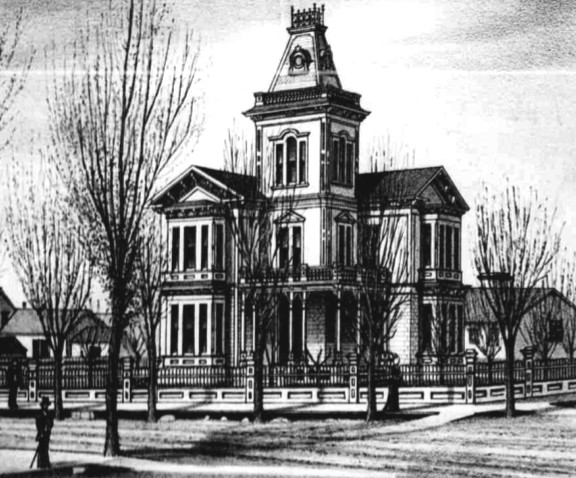 The residence of E. B. McFarland in The Dalles, Oregon